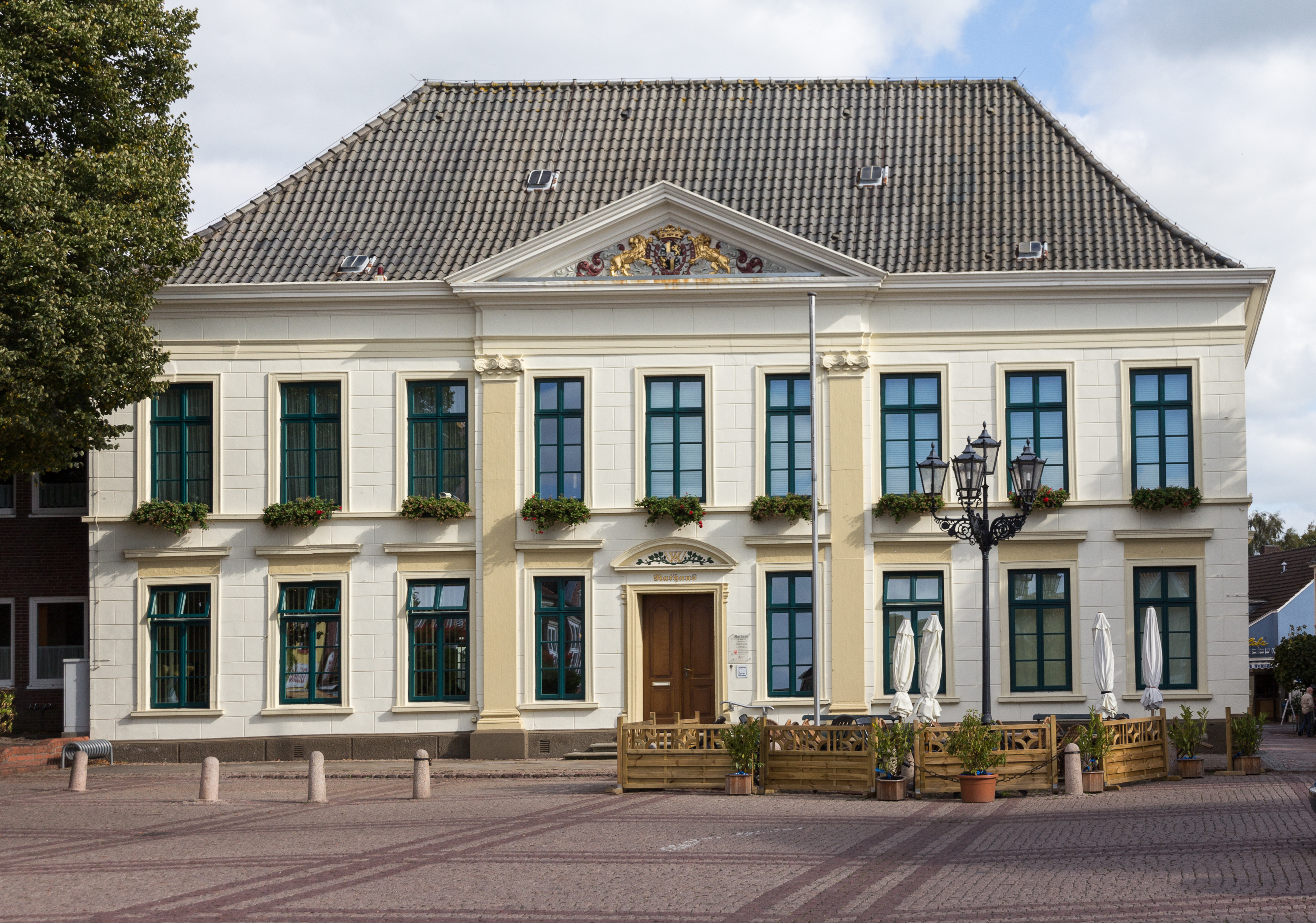 Esens town hall